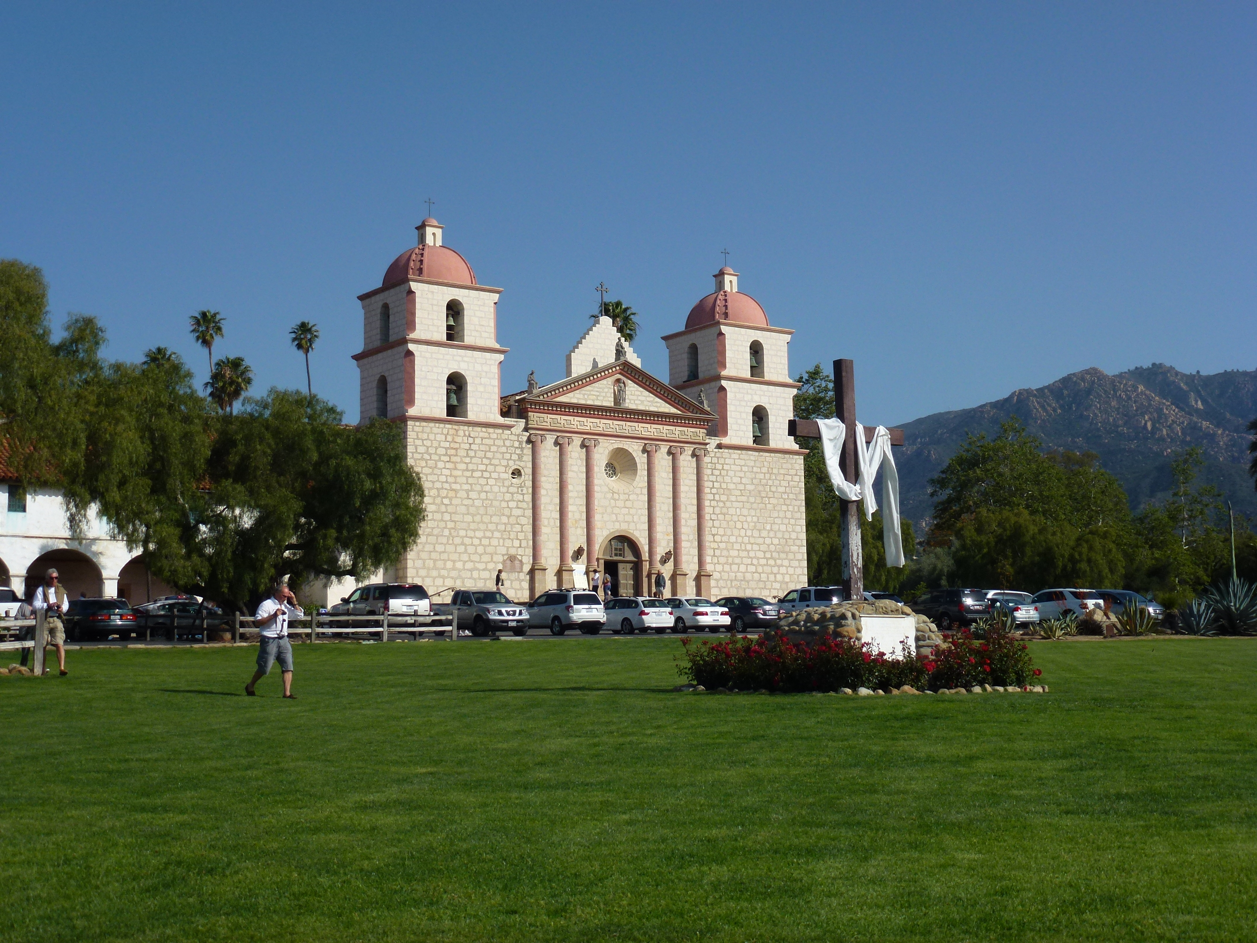 Santa Barbara city in Santa Barbara County, California, United States.